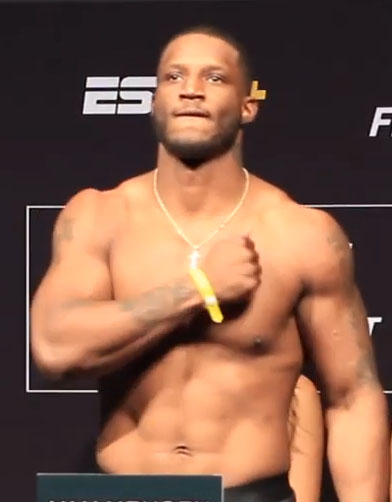 Karl Roberson Jan 19, 2019